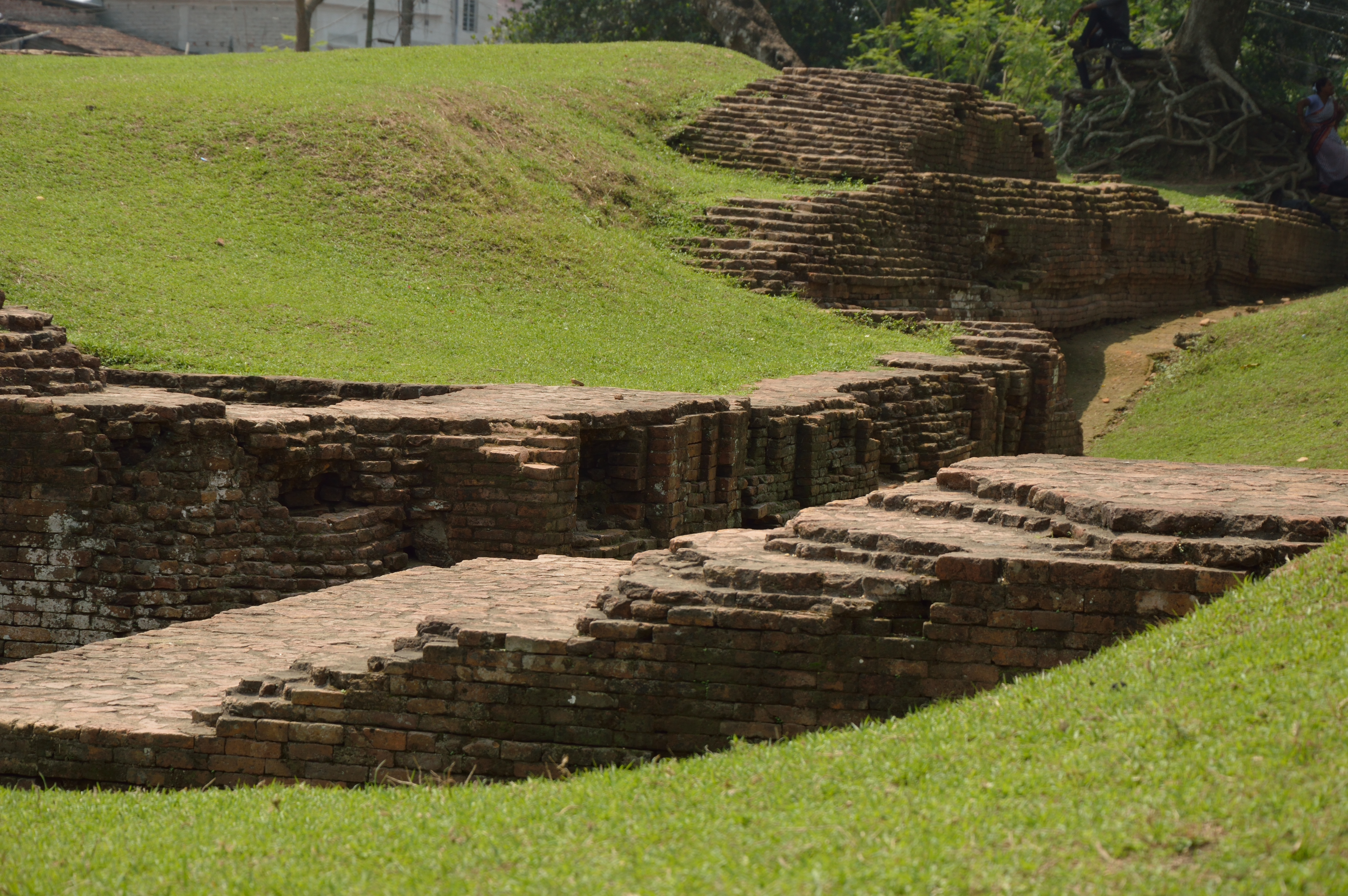 Khana-Mihir Mound (Khana-mihirer Dhipi, hi. Khana-mihir ka tila) also known as (Barahamihirer Dhipi) forms part of huge fortified township named Chandraketugarh. It was first excavated by the Asutosh Museum of Calcutta University in 1956-57 revealing a continuous sequence of cultural remins from 11th century BC pre-mouryan period of 12th century AD Pala period. The most remarcable discovery of the excavation is a polygonal brick temple facing north. This temple has projections on three sides and it is connected with a square vestibule. This temple which was earlier thought to be of Gupta period infact belongs to Pala period which is presumed by its plan adchitecture and decorative designs. The excavation has also unearthed Buddha image, votive stupas, terracotta plaques depicting Buddha and Jataka stories. Coins, terracotta sealing and different types of beads of early historical and historical periods.